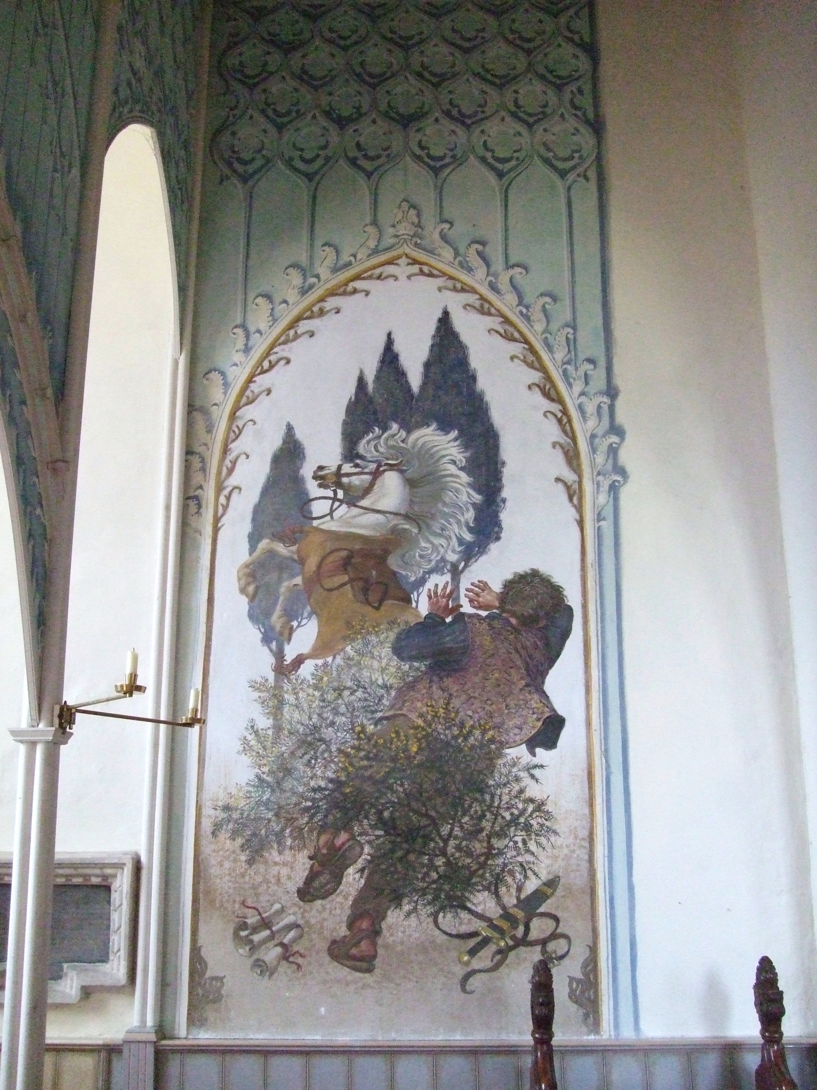 Church of England parish church of St Margaret, Denton, Northamptonshire: mural of the Conversion of St Paul, painted in 1974 by Henry Bird.